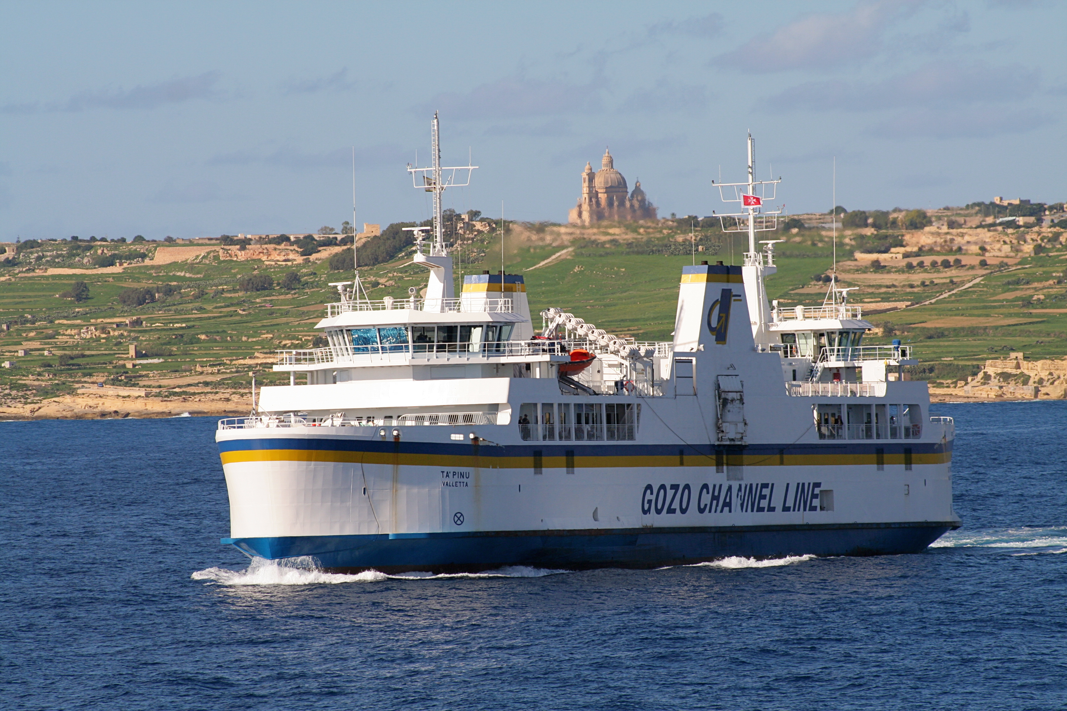 The following is the author's description of the photograph quoted directly from the photograph's Flickr page."The ferry from Mgarr on Gozo to Cirkewwa (Malta) passing another ferry going in the opposite direction.If you look at the "original" size version you can see that the bottom half of the church is blurred by the heat exhaust from the ship's funnel "